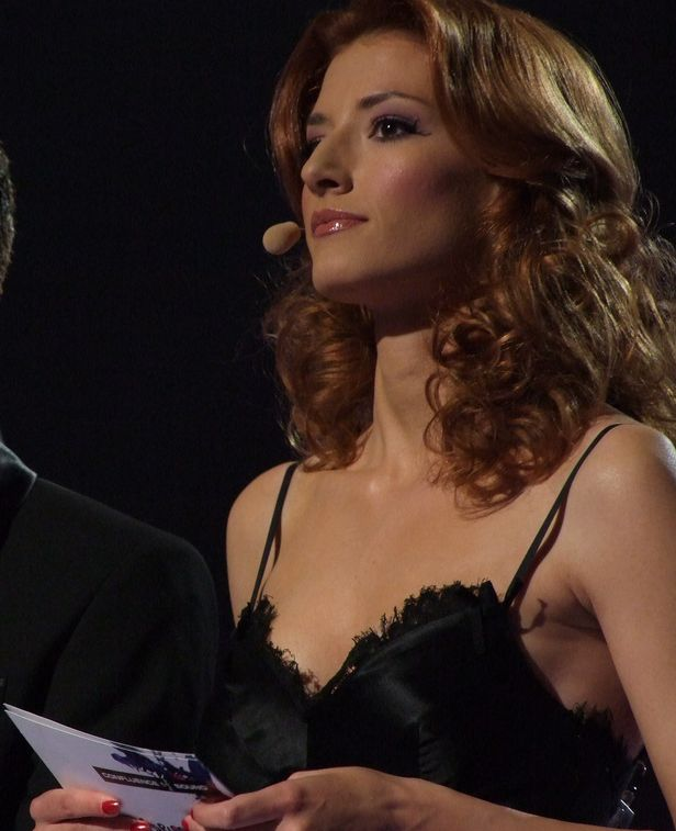 Eurovision Song Contest 2008 in Belgrade, 1st semifinal TV presenter: Jovana Janković.